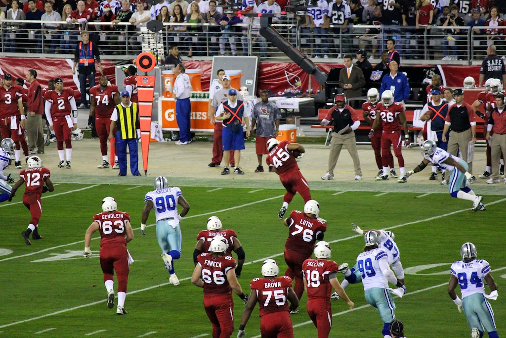 Arizona Cardinals running back Reagan Mauia (#45) runs with the ball in the Cardinals' Christmas Day 2010 game against the Dallas Cowboys.